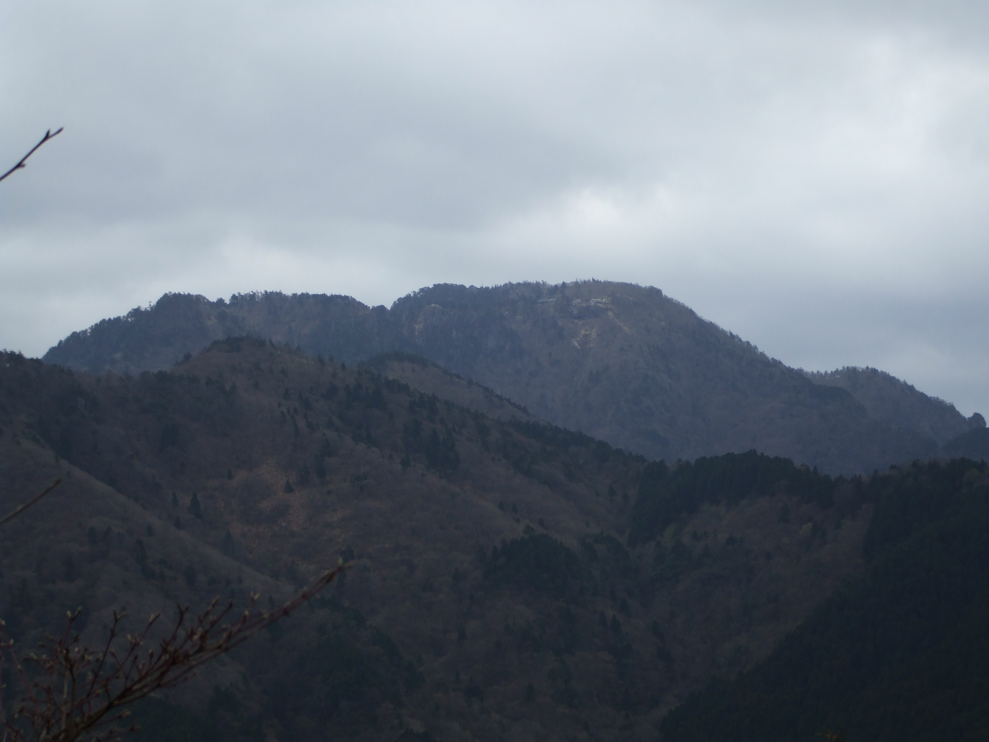 Mount Sanjo seen from the NNW. Taken from Mount Otenjo.